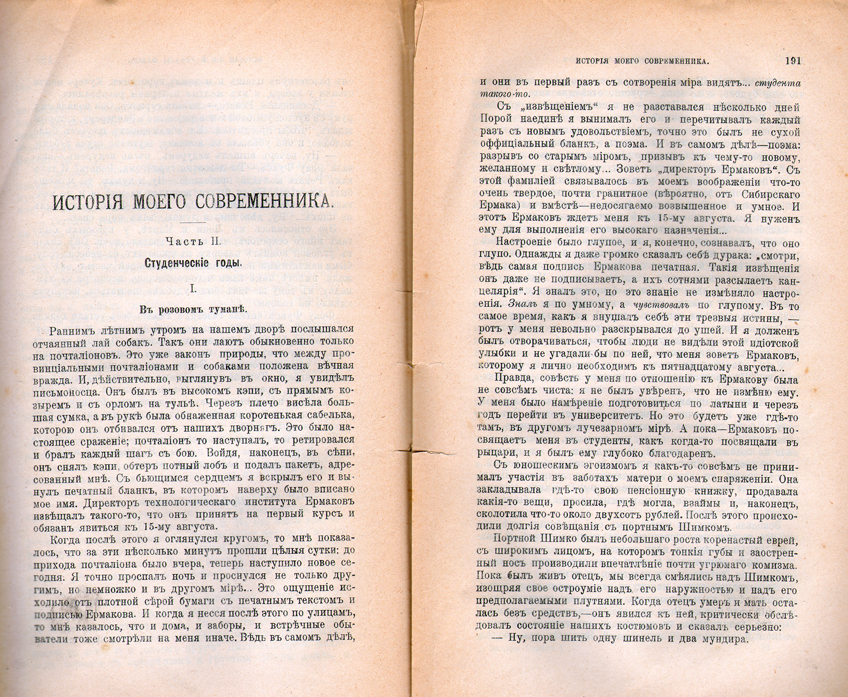 The History of My Contemporary an autobiography (1905–1921)